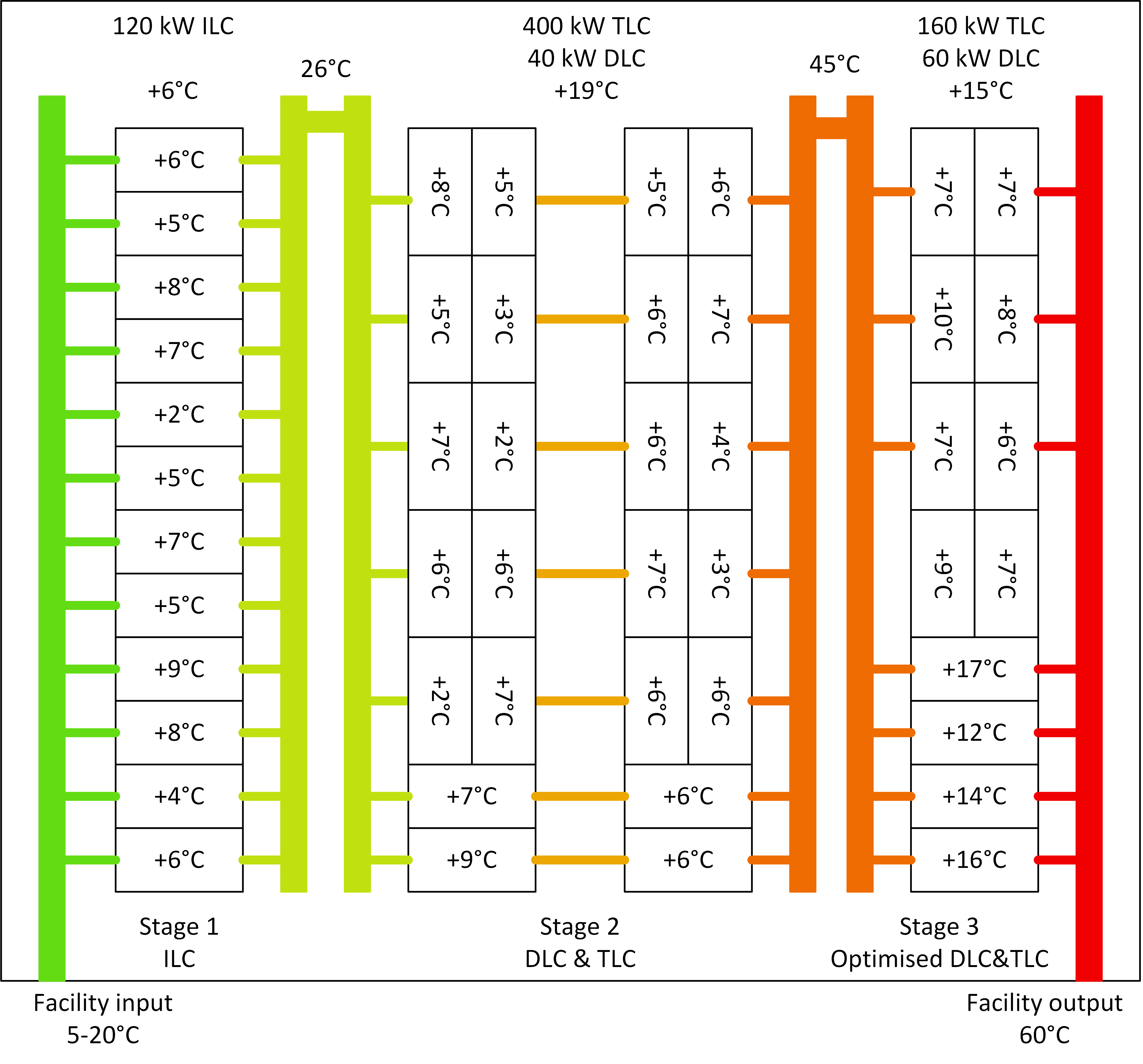 An example infrastructure which involves temperature chaining for heat reuse.